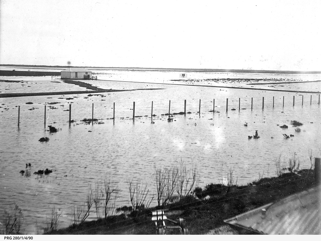 Buildings and powder magazines at Dry Creek during a severe flood in 1908